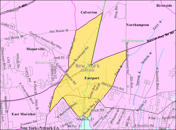 U.S. Census 2000 reference map for Eastport